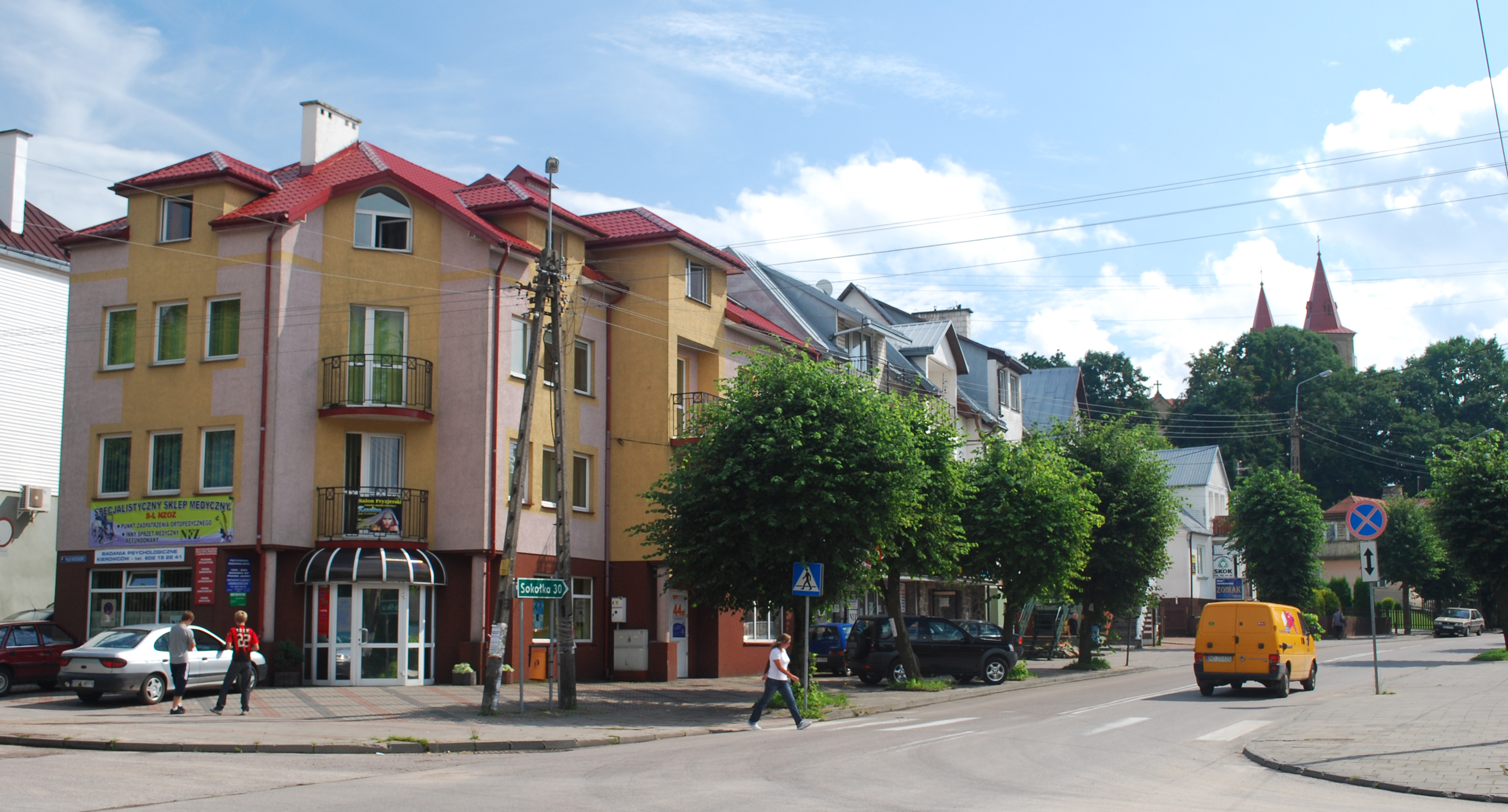 This photo from Podlaskie Voievodeship was taken during Polish Wikiexpedition 2009 set up by Wikimedia Polska Association. The making of this document was supported by Wikimedia Polska. Ulica w Dąbrowie Białostockiej.